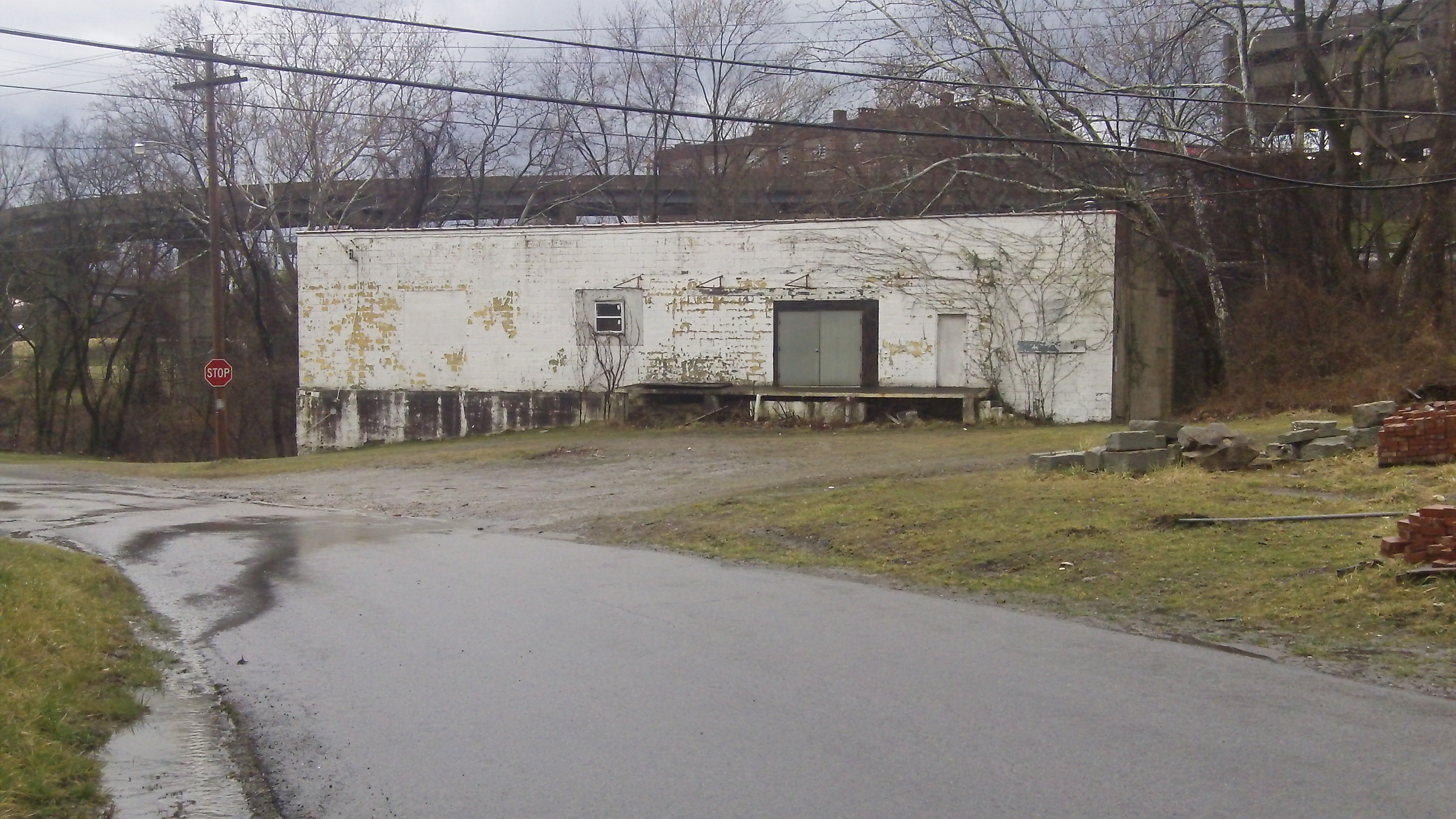 Glen Elk Historic District, Roughly bounded by Elk Creek and the Baltimore